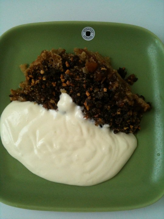 applecake